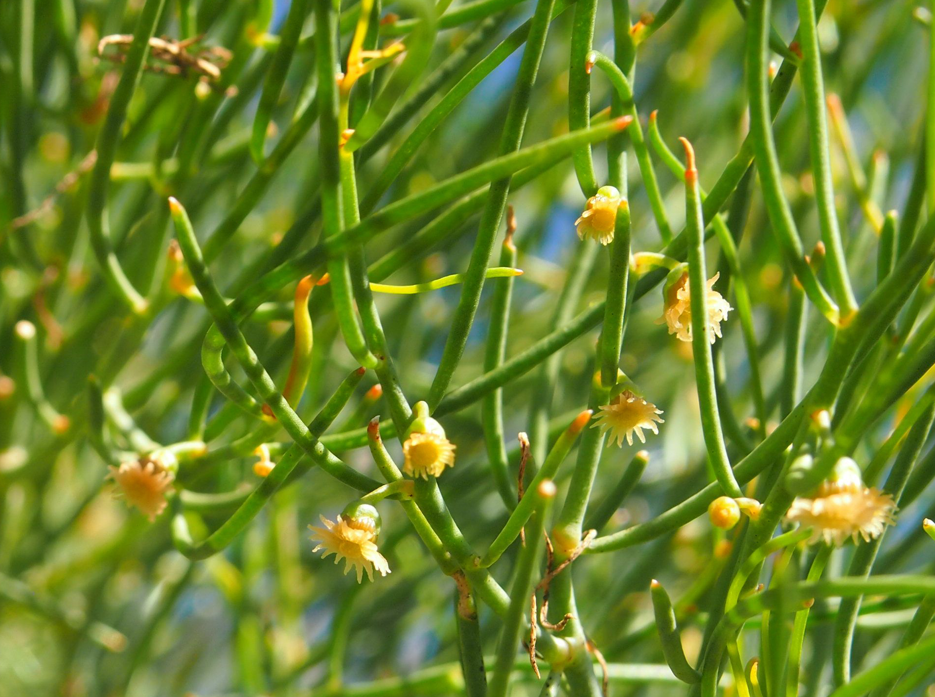 Gyrostemon ramulosus foliage and flowers